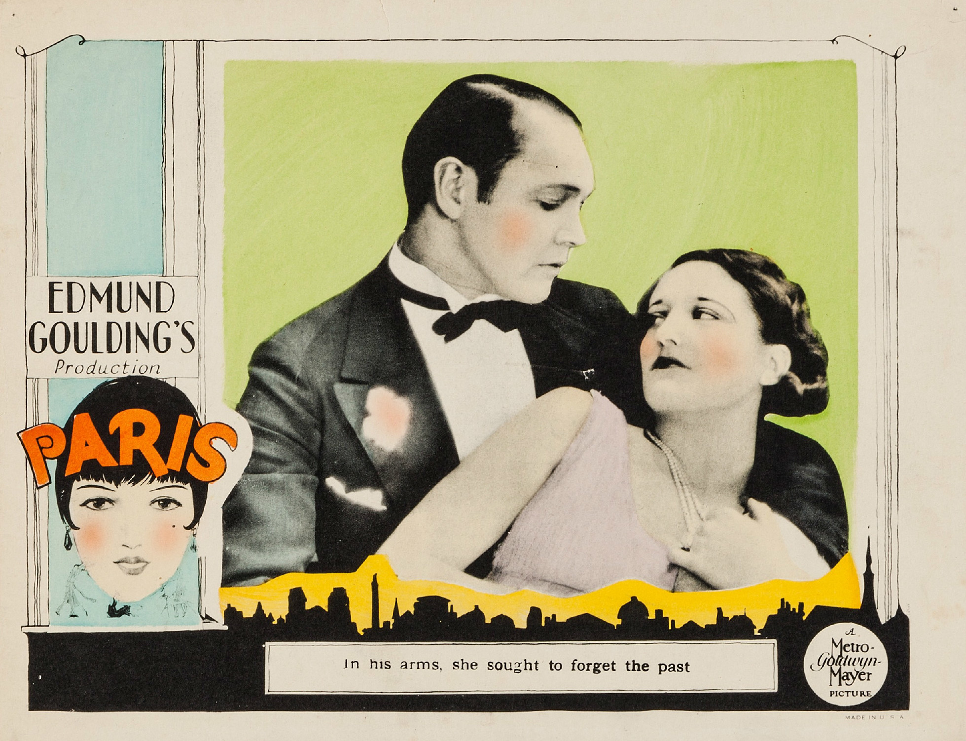 Lobby card for the American romantic drama film Paris (1926).